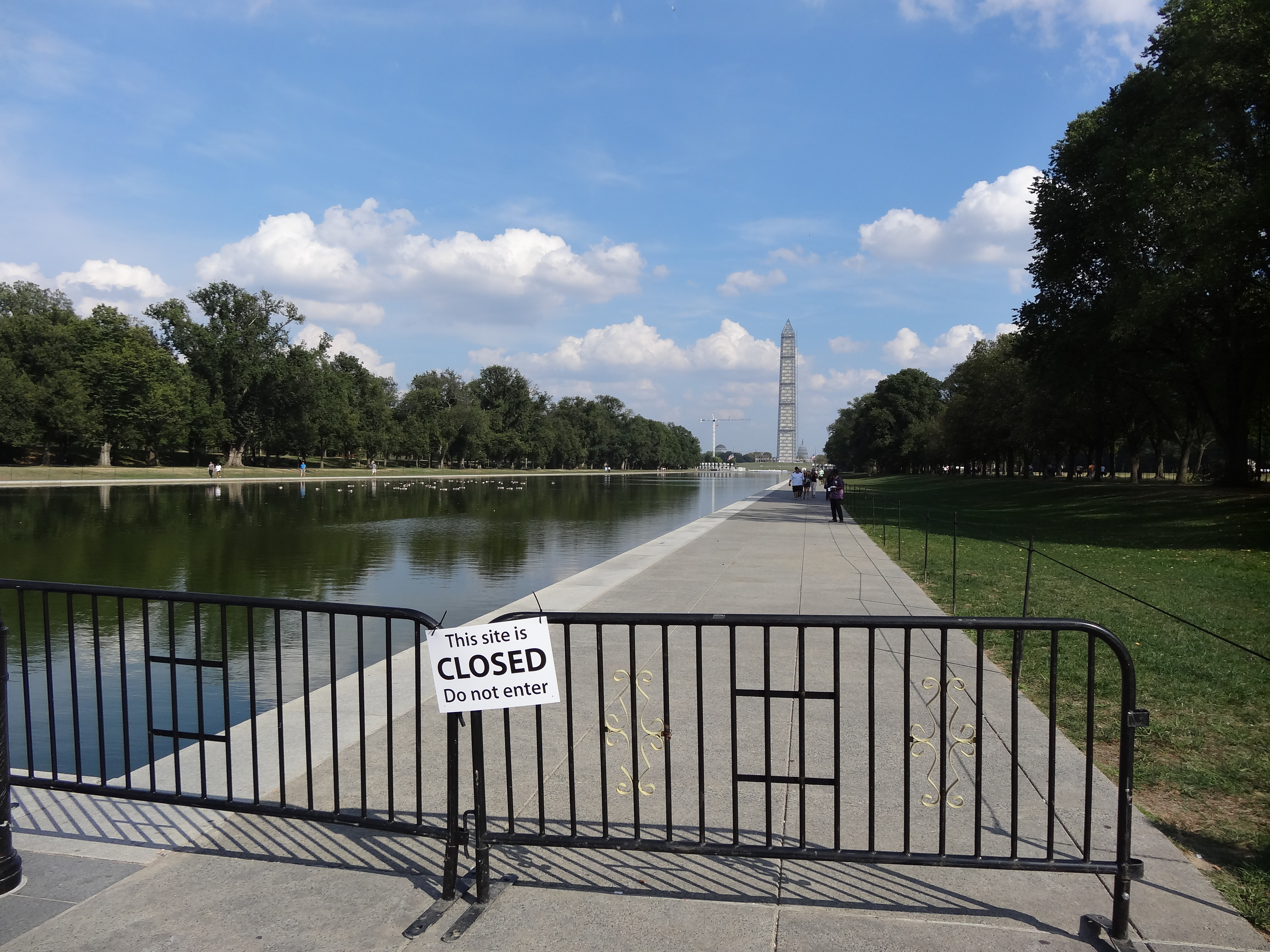 The south walkway along the perimeter of the Reflecting Pool in Washington, DC. The area was closed during the US government shutdown of 2013.